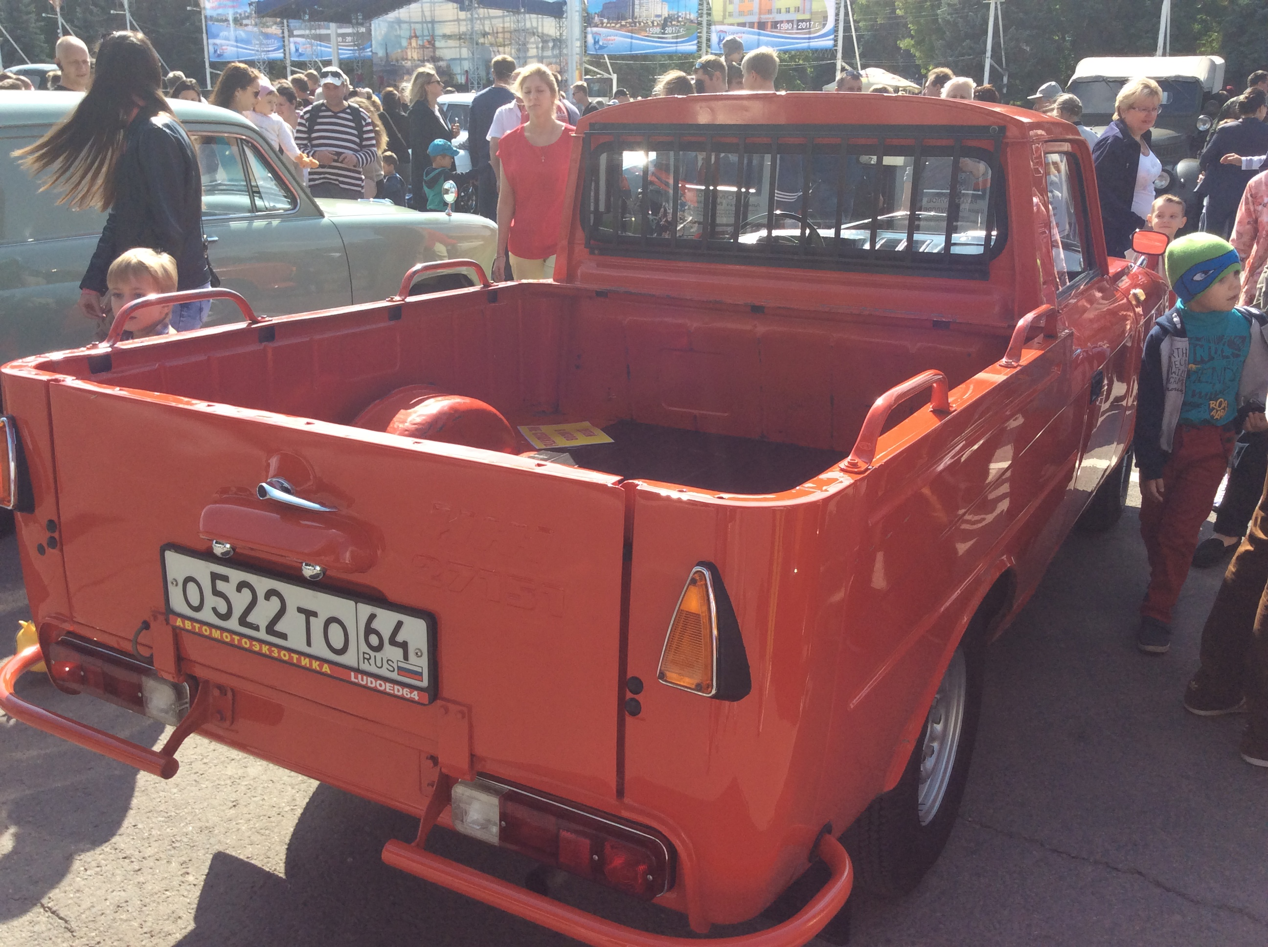 Izh-27151 in Saratov, Russia